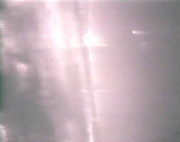 The lead F-14 has just destroyed the last MiG-23 with an AIM-9 Sidewinder. This screenshot is taken from the "F-14 - Libyan MiG-23 Engagement" during the Second Gulf of Sidra incident